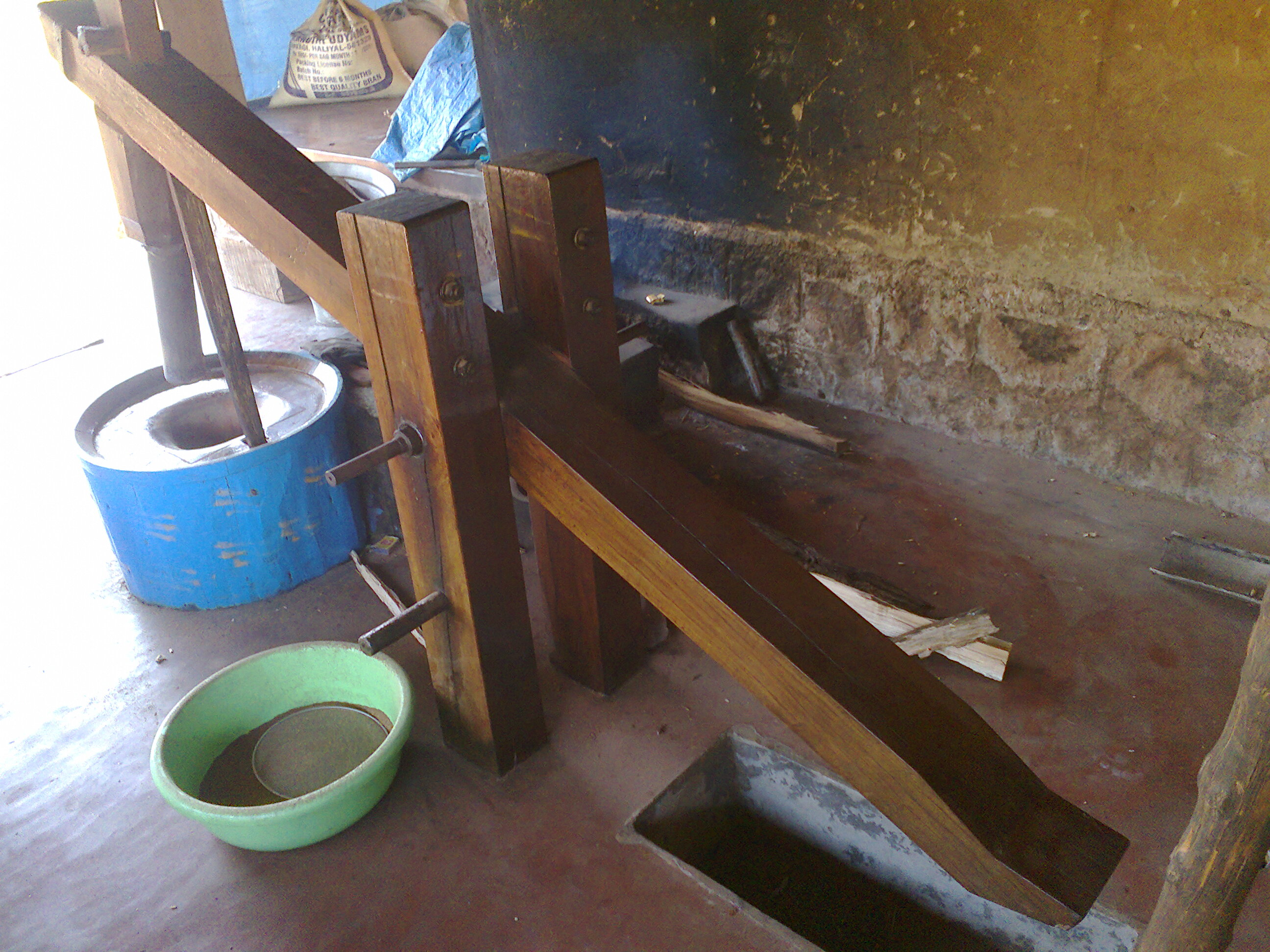 pilikula managlore